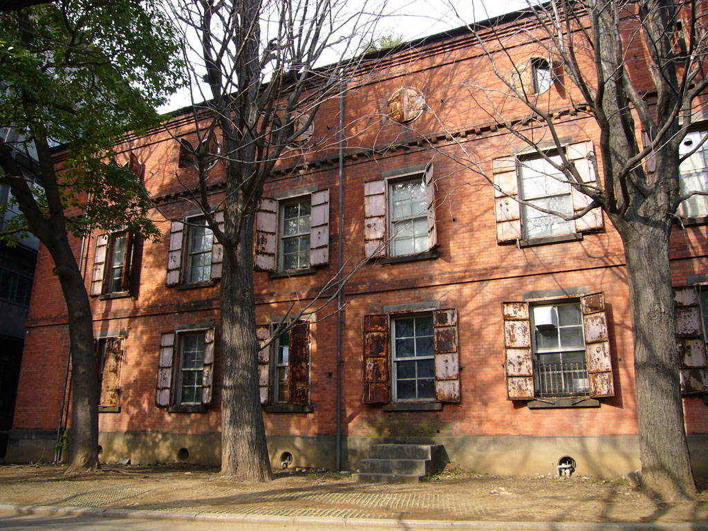 Tokyo National University of Fine Arts and Music, Tokyo, Japan